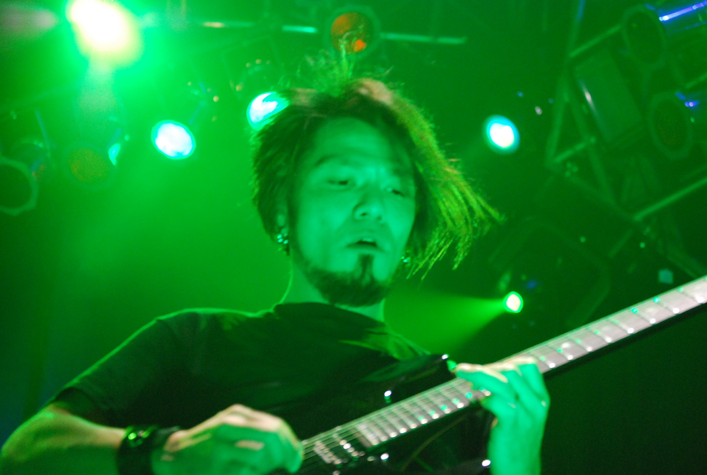 Koichi Fukuda during the Operation Annihilation tour October 2007